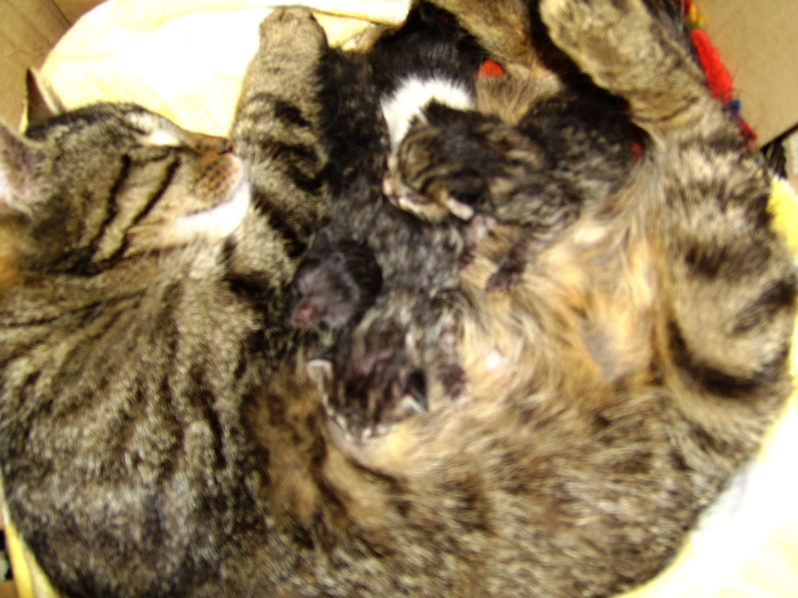 young kitten just a few hours after birth